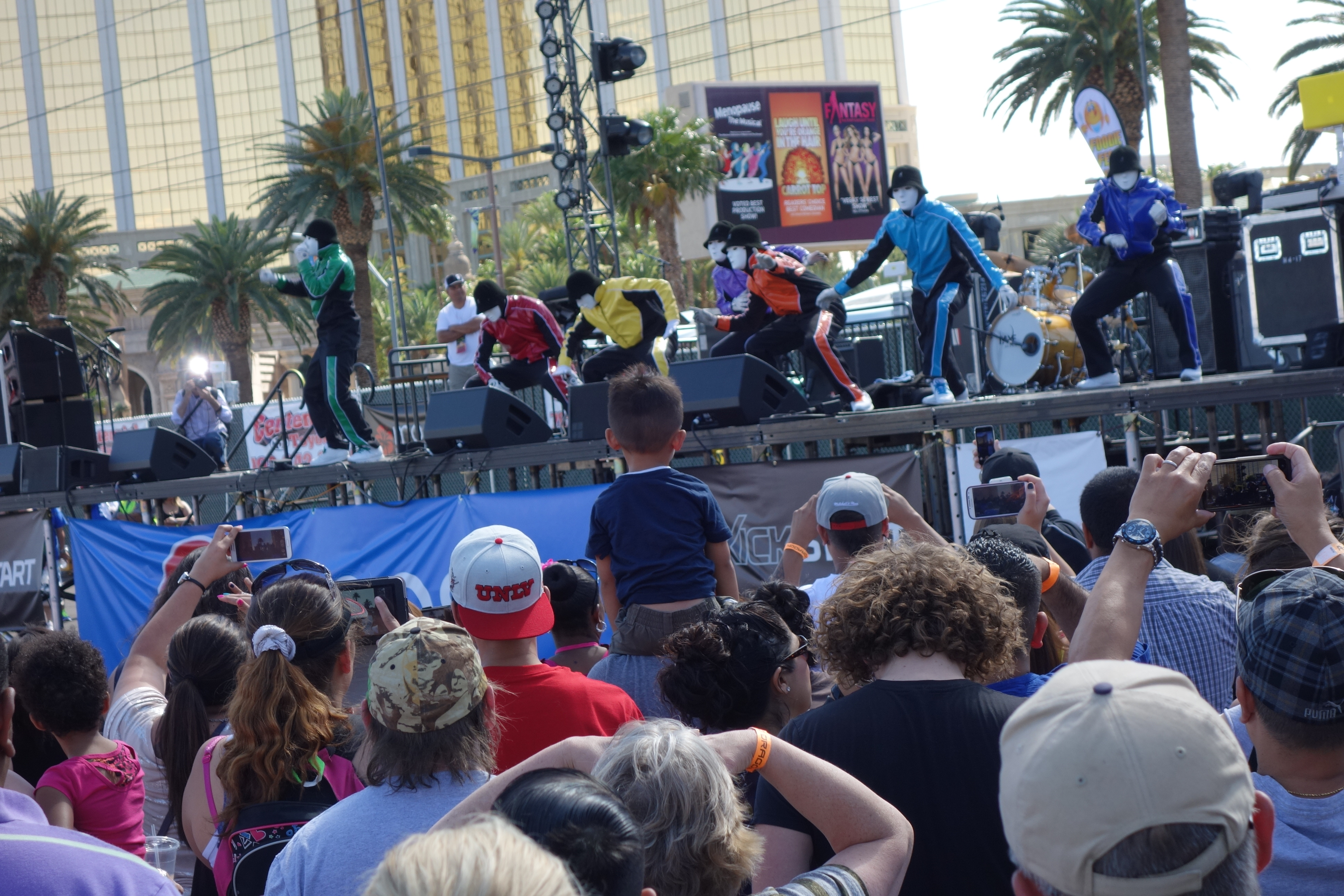 Great performance by the JABBAWOCKEEZ Las Vegas Foodie Fest